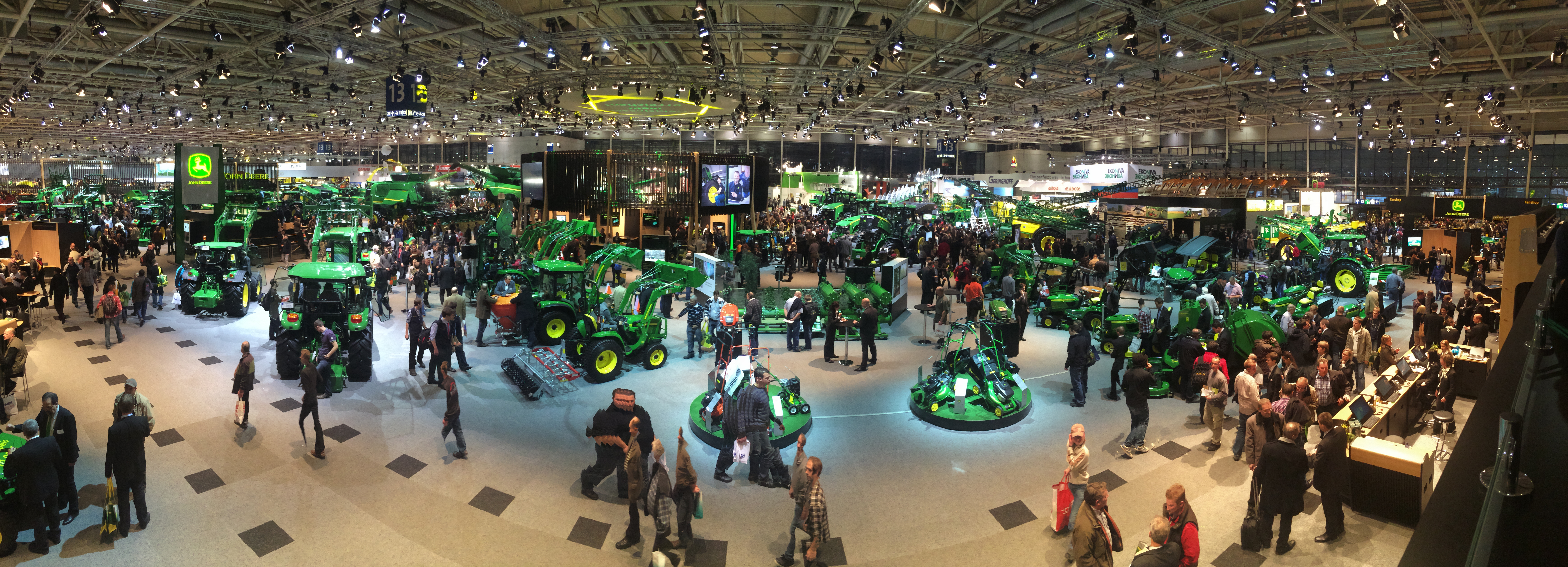 Agritechnica 2013, John Deere